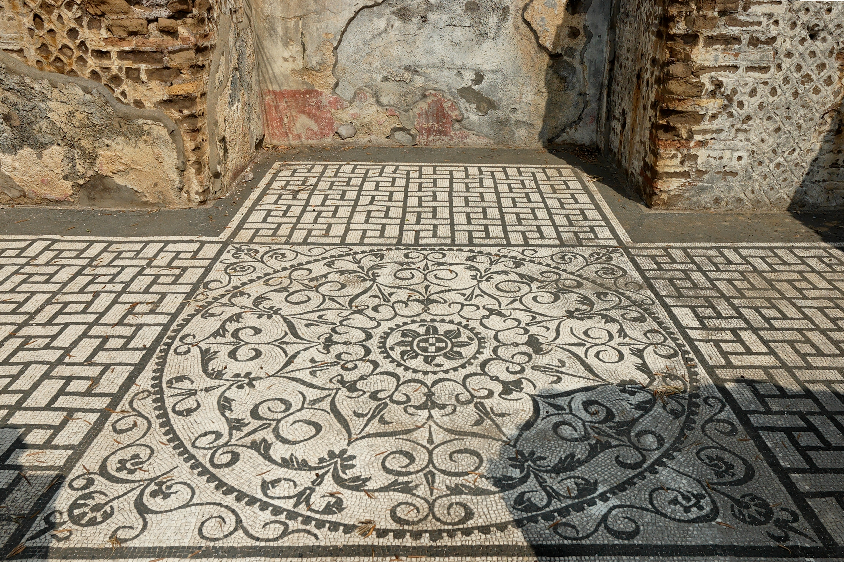 Black and white mosaic pavement; on the background wall: traces of frescoes and of opus reticulatum. From the Hospitalia at the Villa Adriana in Tivoli.